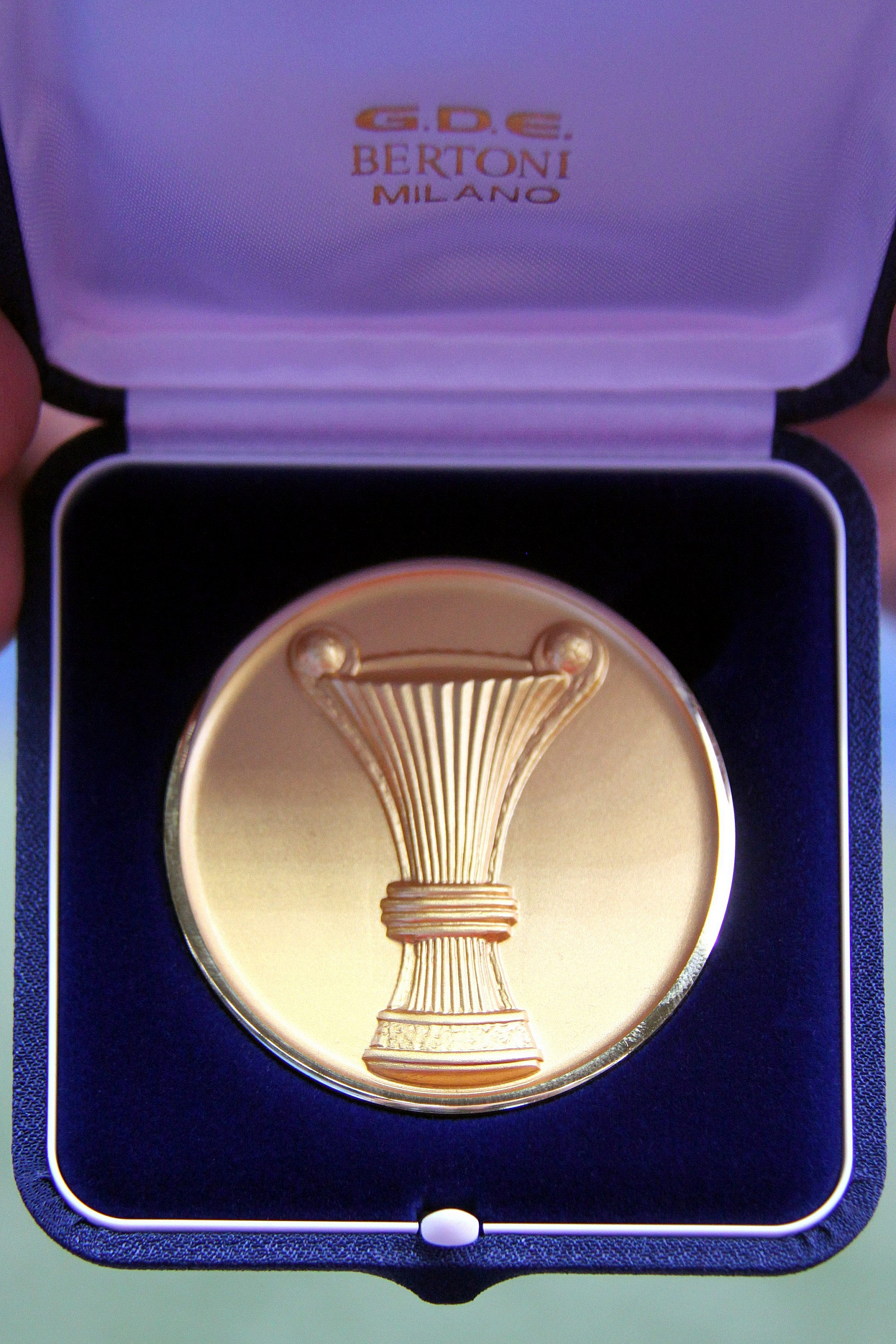 Final of the 2011–12 Austrian Cup FC Red Bull Salzburg vs. SV Ried at 2012-05-20 in the Ernst-Happel-Stadion, Vienna 3:0 (2:0). Object location48° 12′ 25.8″ N, 16° 25′ 15.42″ E